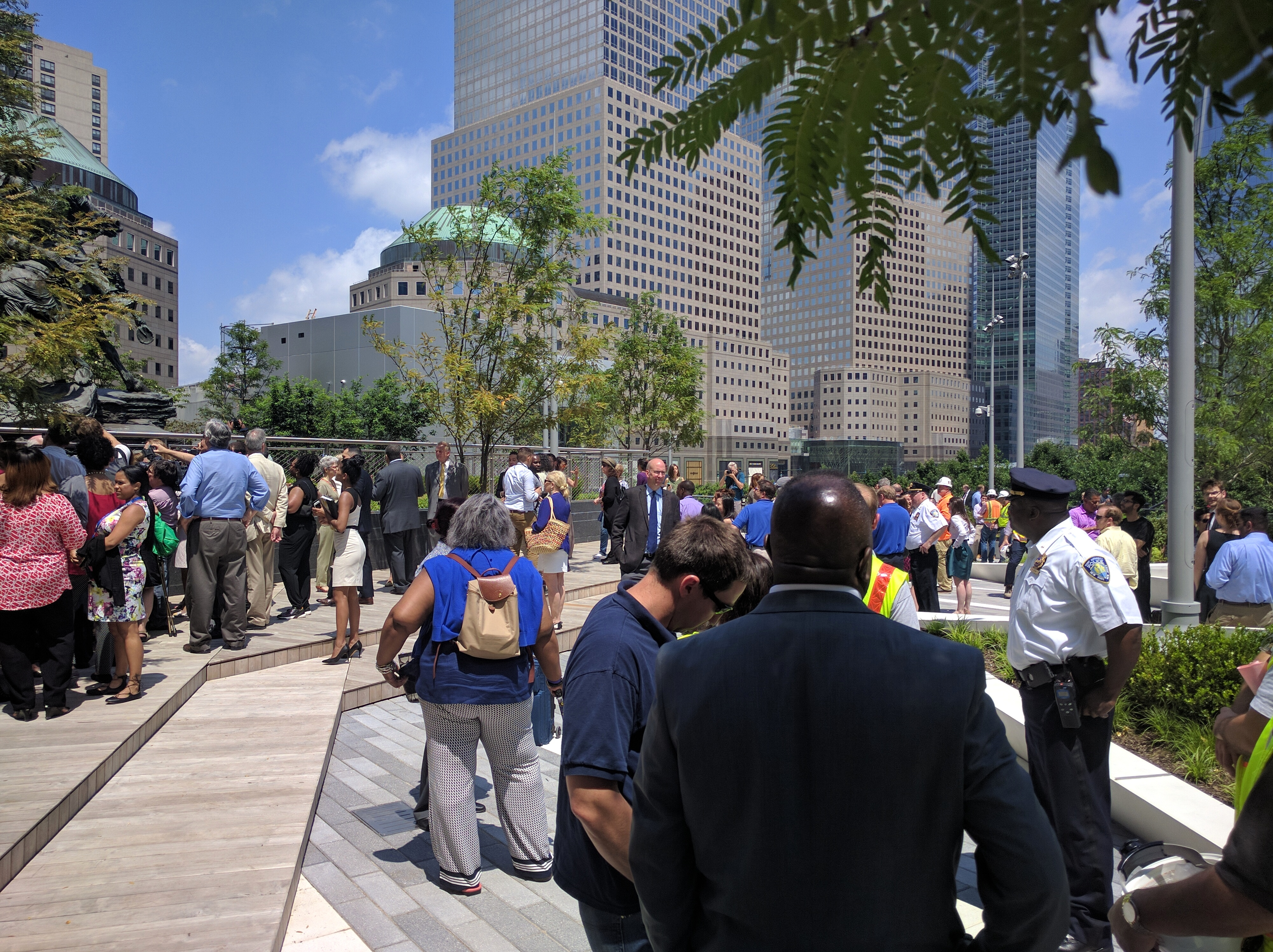 Looking north on opening day of Liberty Street Park